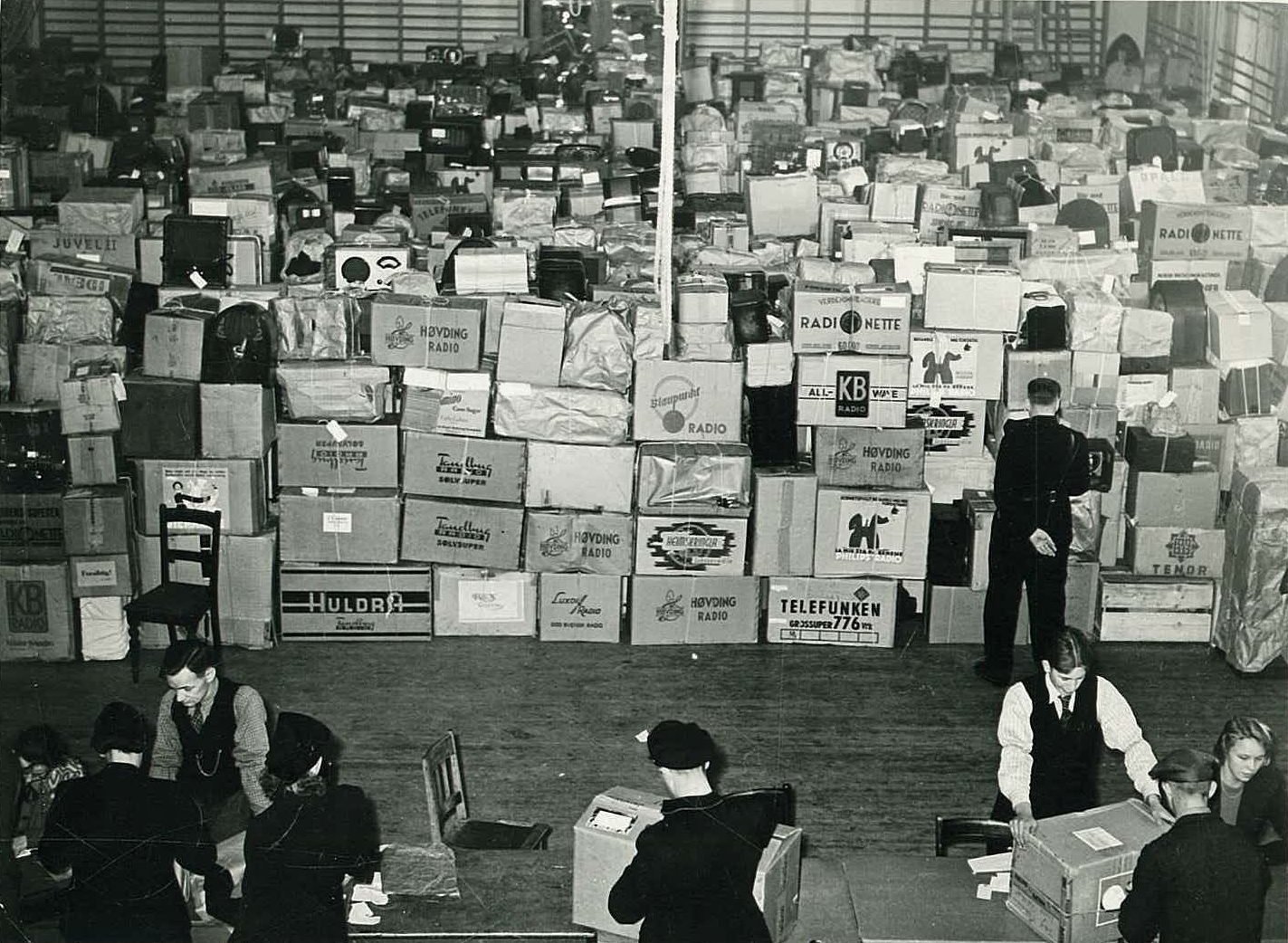 Beskrivelse: 538 000 mottaksapparater ble levert inn til styresmaktene etter ordre sommer og høst 1941. Mange konfiskerte apparater ble sendt til Tyskland. Fotograf: Ukjent Arkivreferanse: NTBs Krigsarkiv PA-1209/ L0093/003 Confiscated radios Description: 538 000 radio receivers were handed in to the authorities by order in the summer and autumn 1941. Many confiscated radios were sent to Germany. Photographer: Unknown Archival reference: NTBs Krigsarkiv PA-1209/ L0093/003 Url